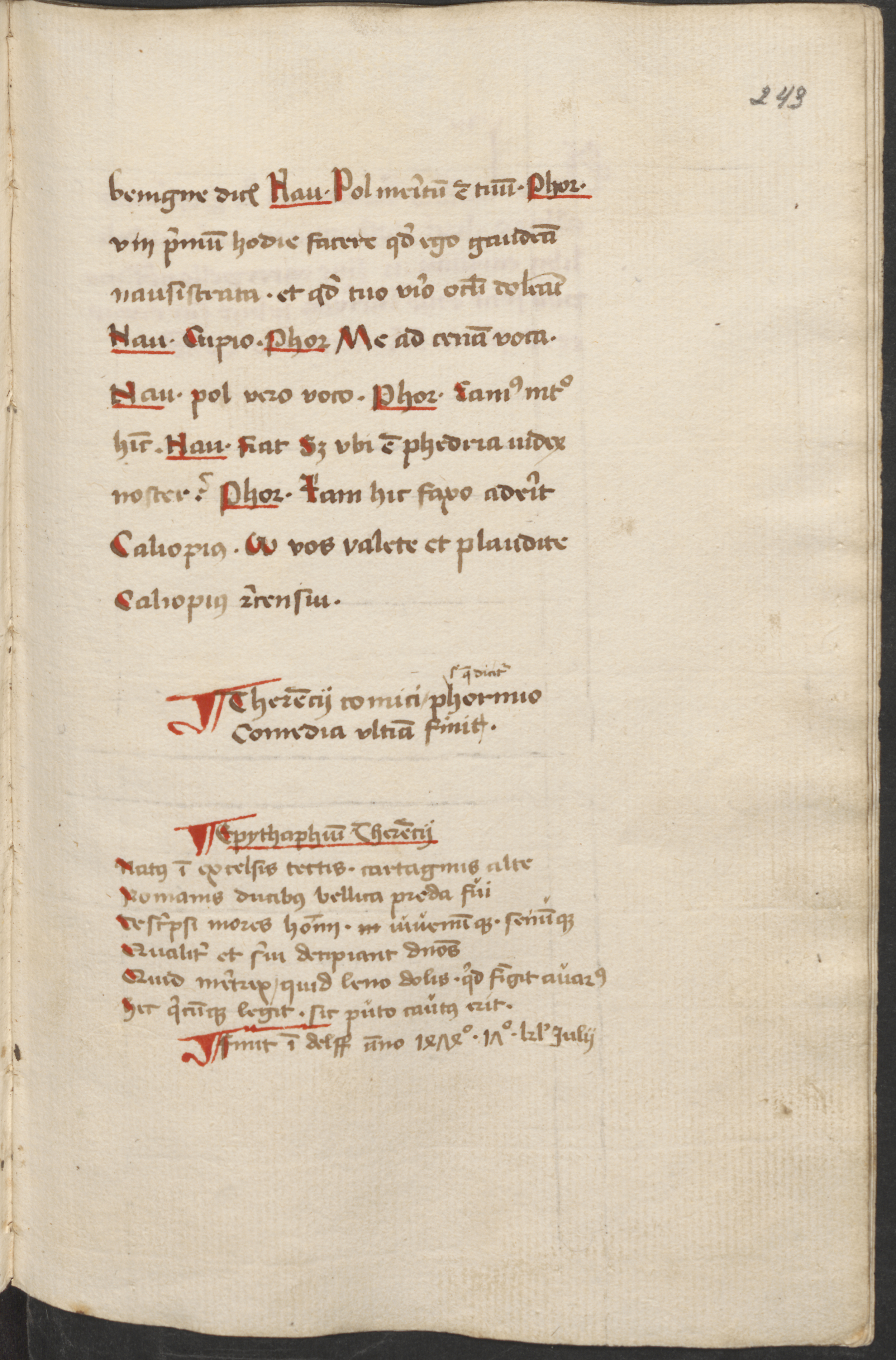 Ms.806, fol. 243r.